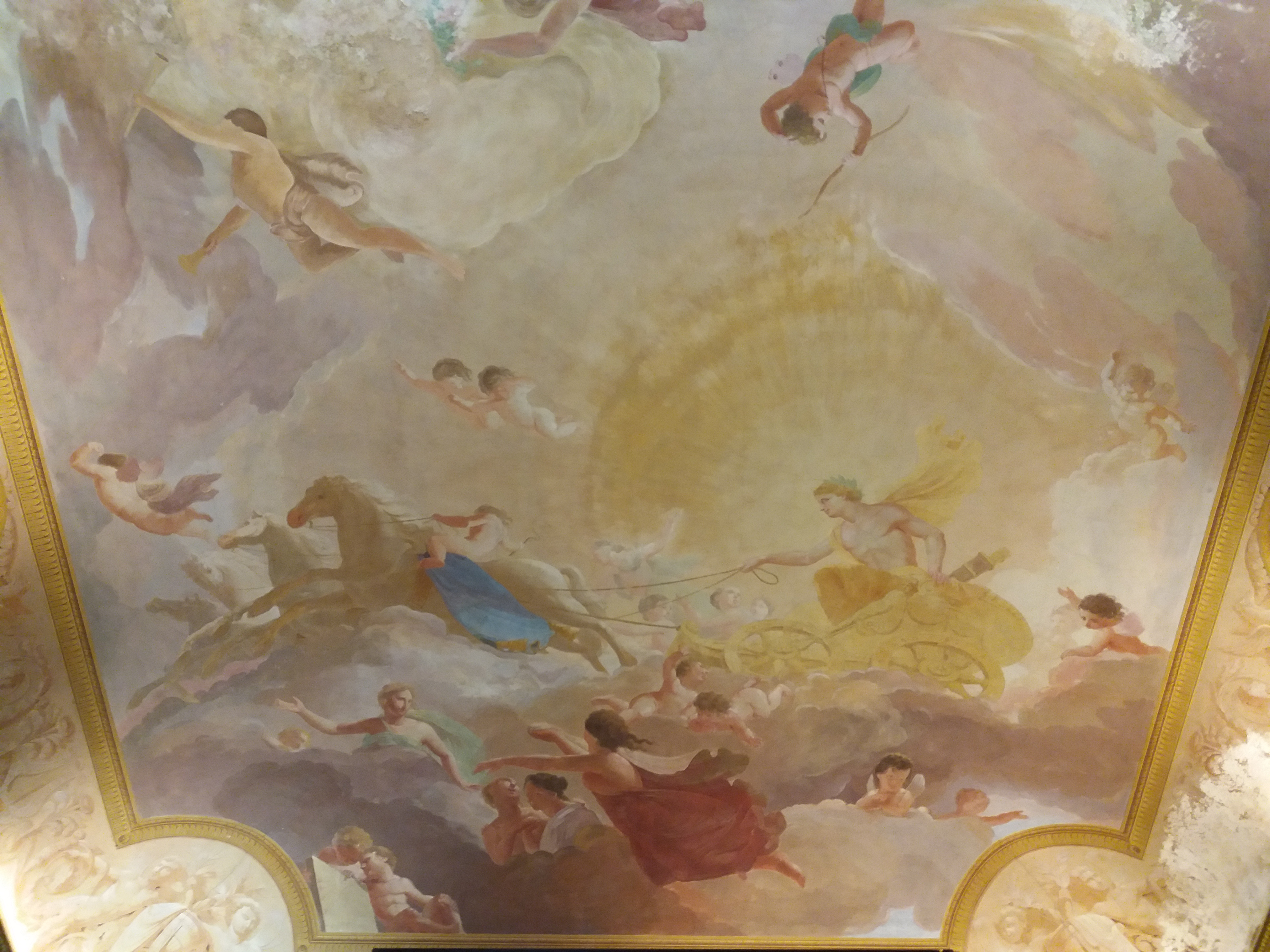 "Carro del Sole", fresco by Pietro Fea, 1825